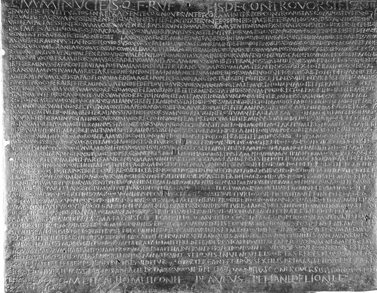 The Tavola Bronzea di Polcevera (Bronze Tablet of the Polcevera valley) is an important document that provides an account of interesting developments regarding the city in the latter half of the 2nd century B.C. At that time, Genoa was federated to Rome and the population of the Veturi Langensi, settled in the area of the Polcevera valley, came under its jurisdiction. While the Genuati tended to favour forestry activitiess, the Langensi were more interested in harvesting field crops. This resulted in constant conflicts regarding the boundaries of the areas controlled by the two populations, causing such unrest that it became necessary to appeal to the supreme court of Rome.: Iin 117 B.C., the Roman Senate sent two magistrates to the Polcevera valley, Quinto and Marco Minucio Rufo, along with their specialists and representatives of the Genuati and the Langensi. Once the dispute had been resolved, orders were given to define the official boundaries. The sentence delivered by the magistrates was engraved on two bronze tablets that were handed over to both parties ( CIL 05, 07749 = CIL 01, 00584 (p 739, 910) = ILLRP 00517 = D 05946 (p 186) = AE 1955, 00223 = AE 1997, +00244 = AE 2003, +00671 = AE 2004, +00570 = AE 2006, +00054 = AE 2013, +00126 = AE 2013, 00540 Epigraphik-Datenbank Clauss Slaby).